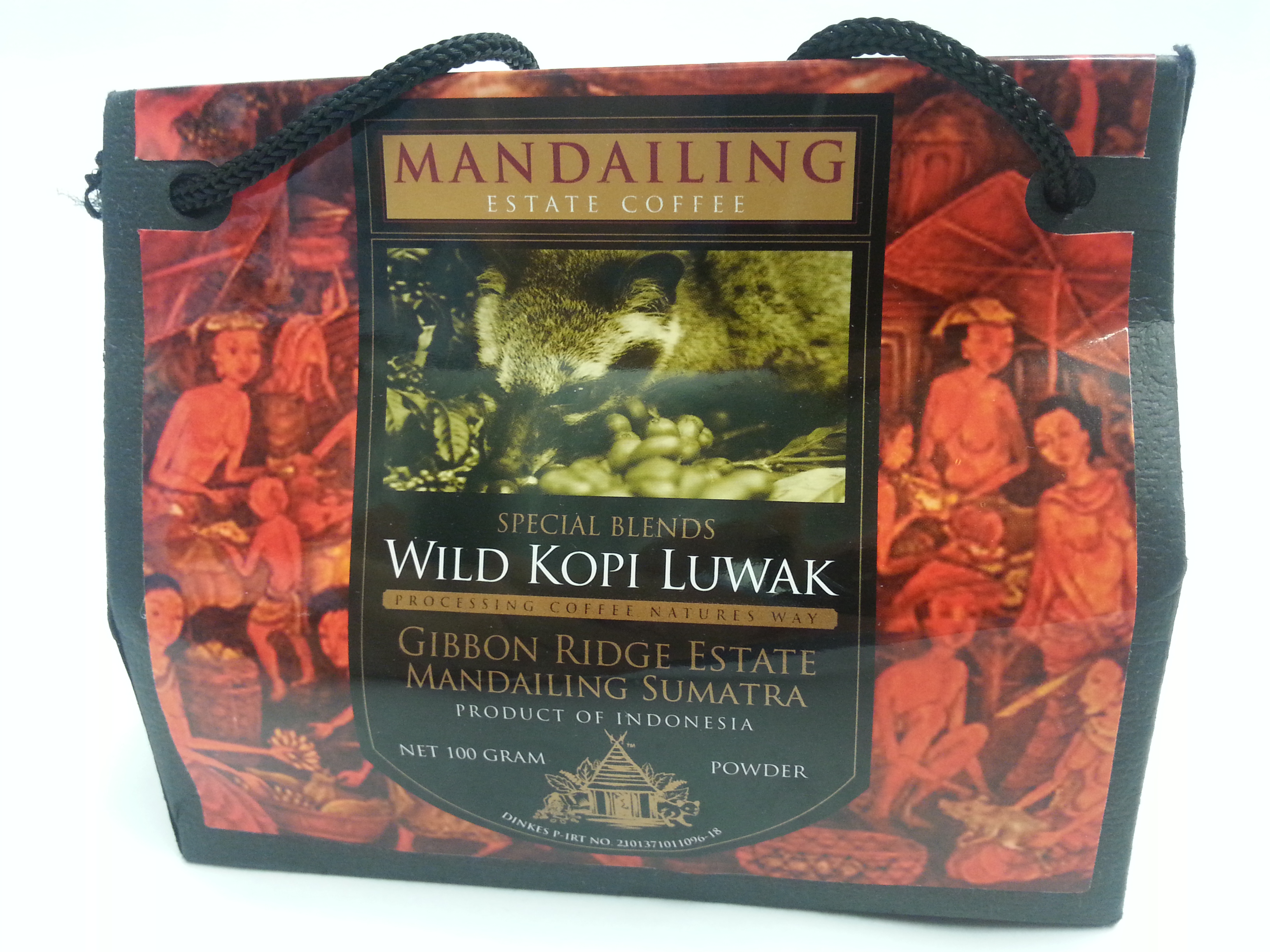 A 100g pack of Kopi Luwak